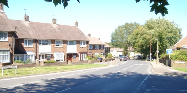 Looking east along Southgate Drive, Southgate, Crawley, West Sussex, England. Built in the mid-1950s as part of the Southgate neighbourhood of Crawley, designated as a New Town by a 1946 Act of Parliament.